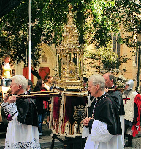 Relic of the Holy Blood carried during the Procession of the Precious Blood (Bruges, Belgium).